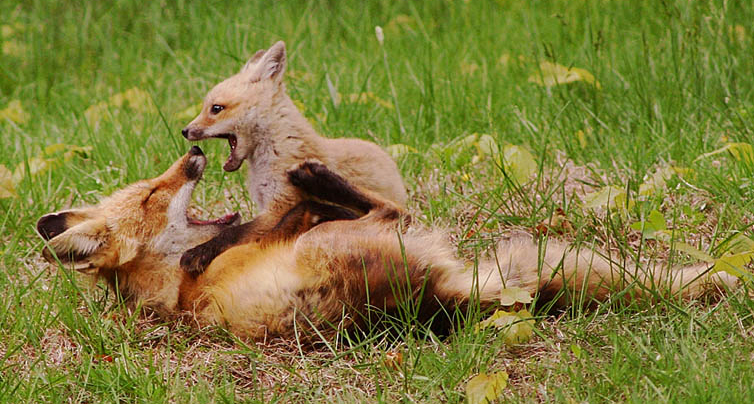 Red Fox (Vulpes vulpes) playing with its kit.